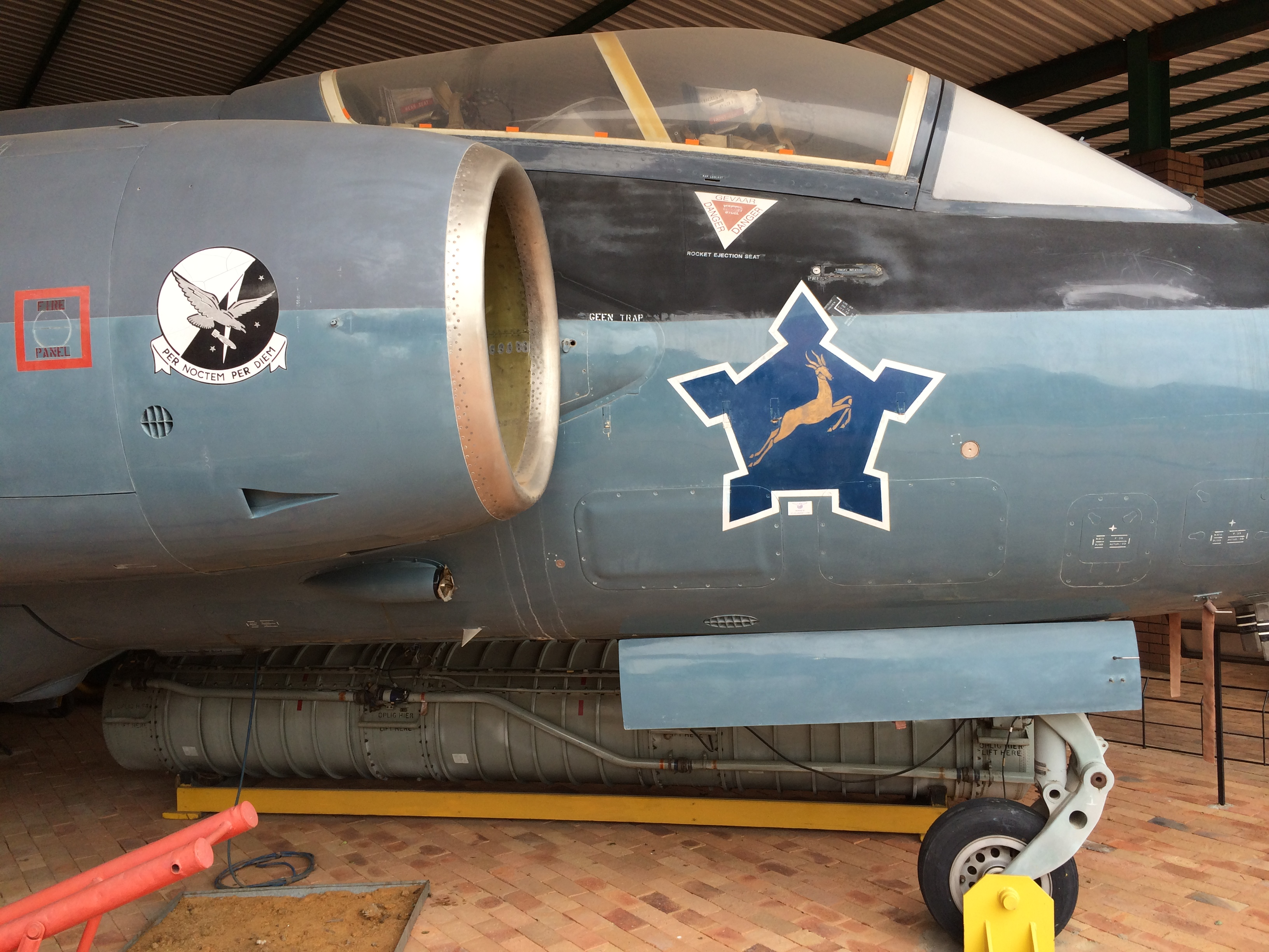 SAAF Buccaneer at South African National Museum of Military History. Cockpit view with extended range ferrying fuel tank visible below aircraft. Fuel tank is carried in bomb bay.